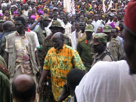 Original caption states, "Former Southern Sudan leader John Garang (in yellow) walking through a crowd of supporters."